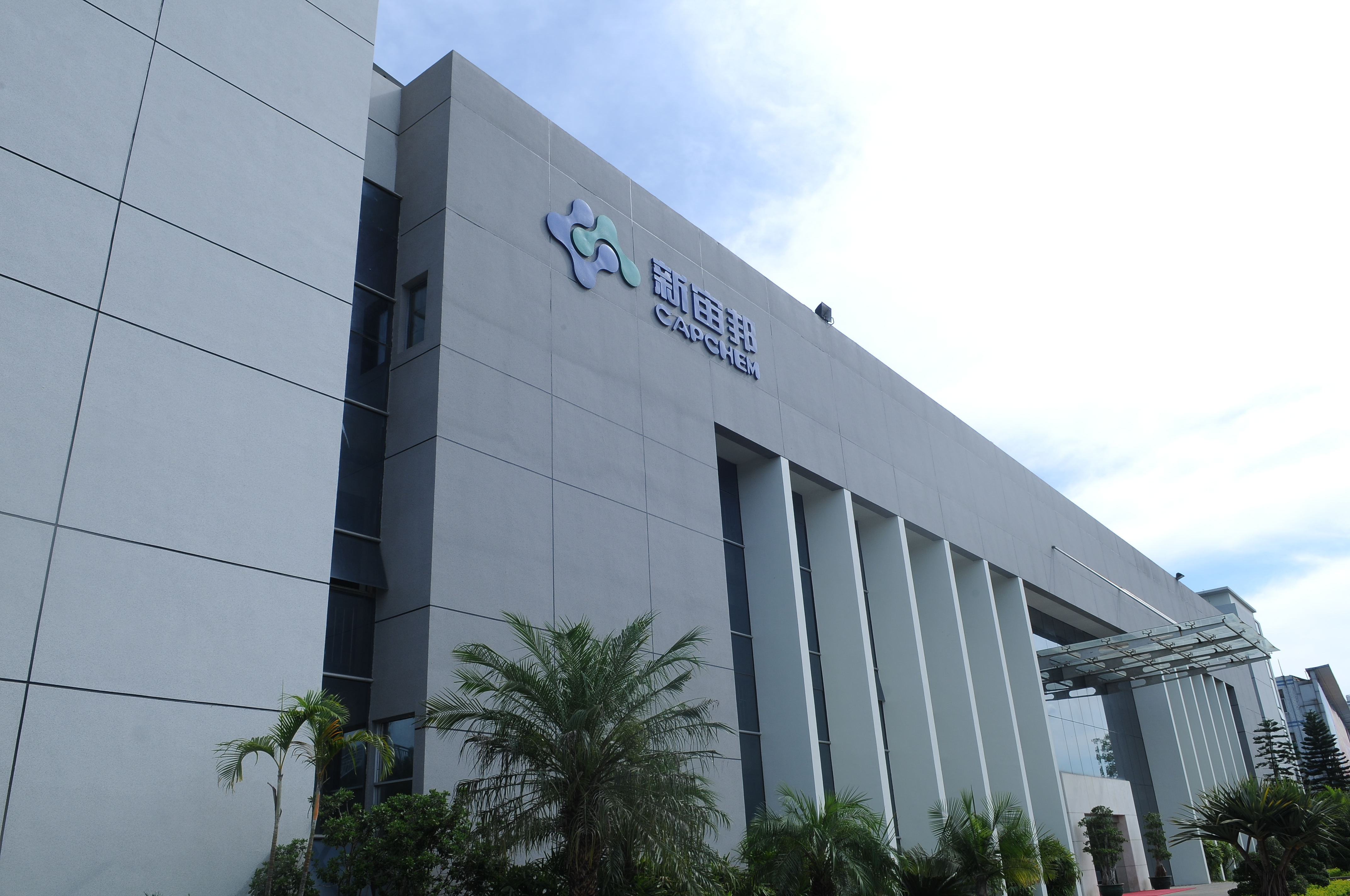 Research Center of Capchem